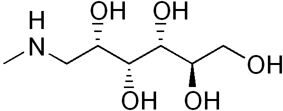 chemical structure of meglumine